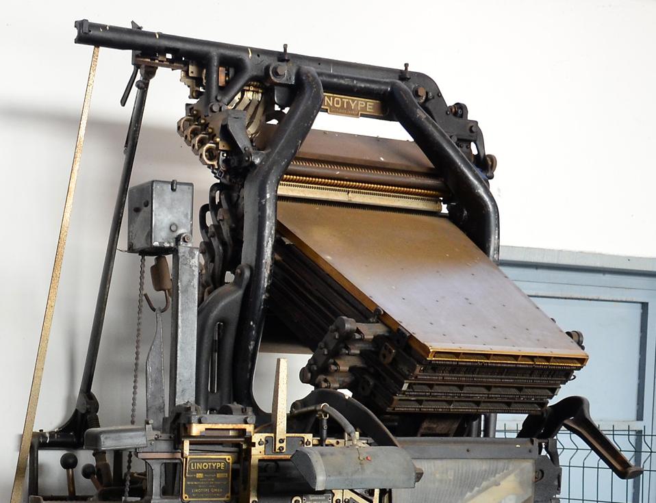 crop of File:141003-Hatten-07.jpg, showing the multiple sorters of a mixer-type linotype